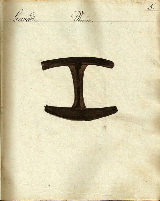 Cattle brand of Stein/Ştenea/Garat in Transylvania